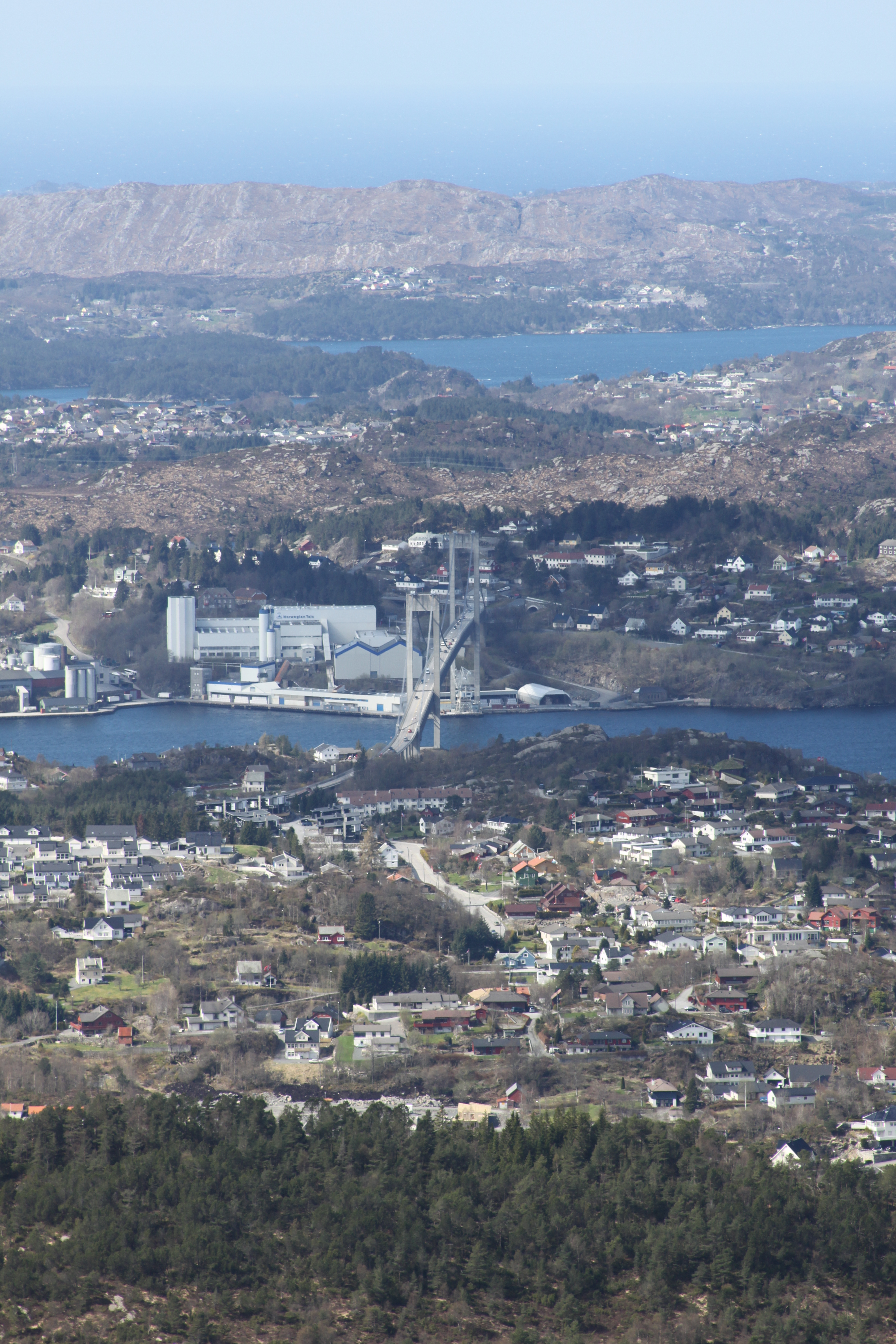 Sotrabru towards Sotra from Lyderhorn Norsk (bokmål): Sotrabrua sett fra Lyderhorn mot Sotra